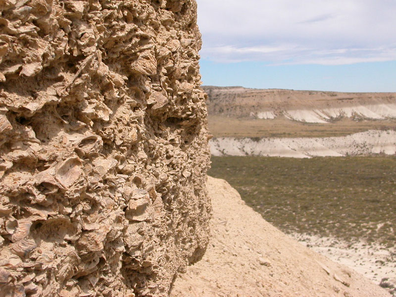 Marine fossiliferous strata from the Neogene of Chubut, Argentina